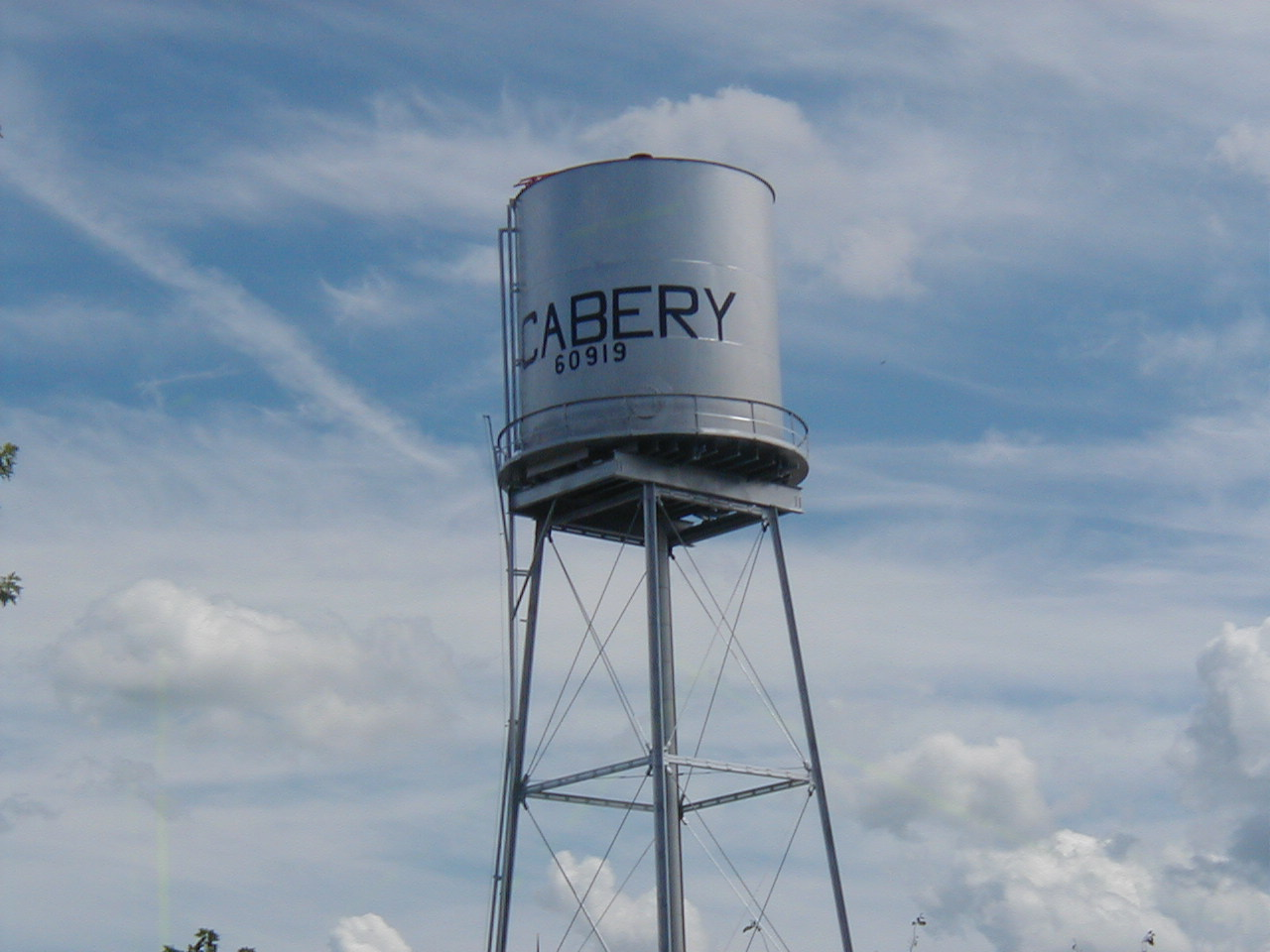 Picture of the Cabery, Illinois water tower.